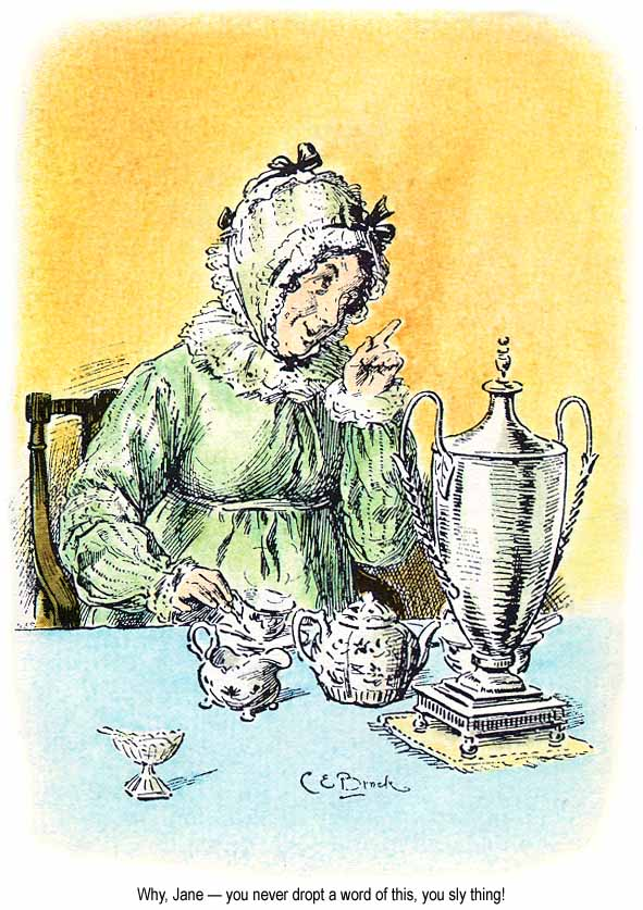 C. E. Brock illustration for the 1895 edition of Jane Austen's novel Pride and Prejudice (Chapter 13 ): "Why, Jane -- you never dropt a word of this; you sly thing! "